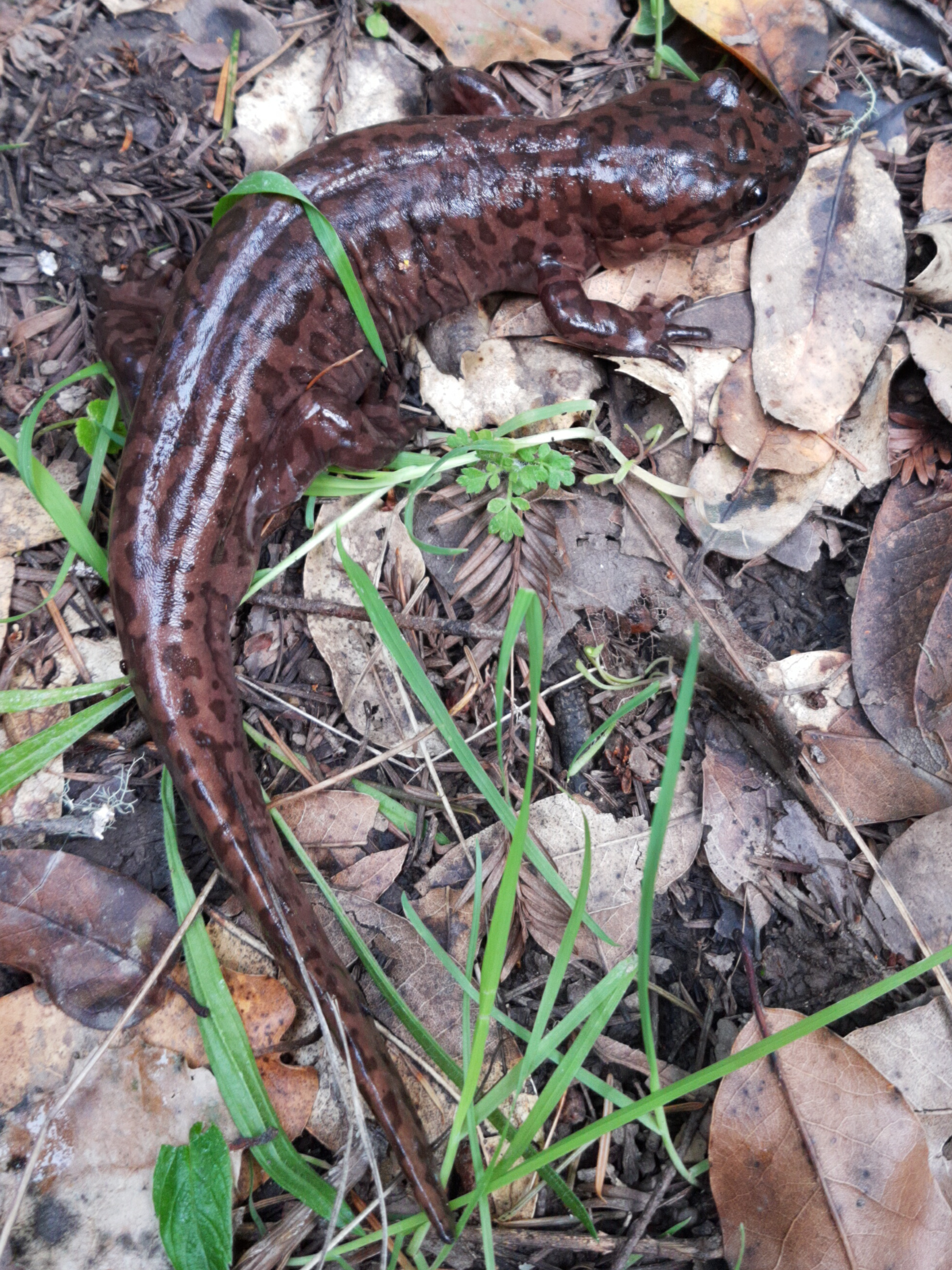 Dicamptodon ensatus, terrestrial adult, Pescadero Creek County Park, San Mateo county, California